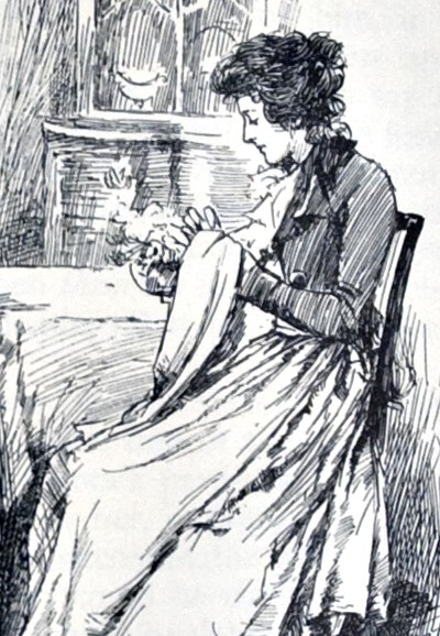 Elinor from Elinor and Edward at Barton, in Austen, Jane. Sense and Sensibility. London: George Allen, 1899.